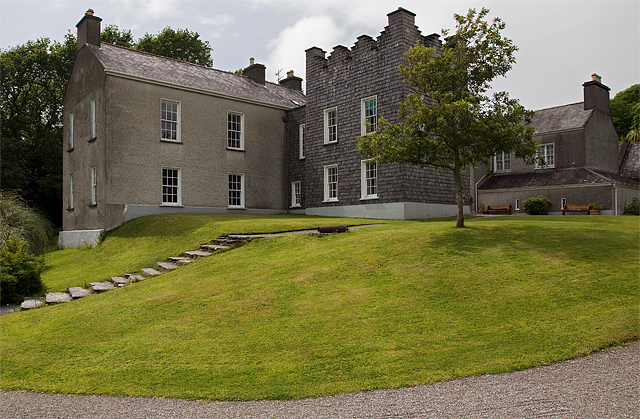 Derrynane House The ancestral home of the lawyer, politician, and statesman, Daniel O'Connell. Known to Irish people as 'The Liberator', in 1829 he obtained Catholic Emancipation for Ireland entirely by political and peaceful means. Designated a National Monument, the house, its contents, and the parklands surrounding it are owned by the Irish State, and comprises Derrynane National Historic Park, which is open to the public.